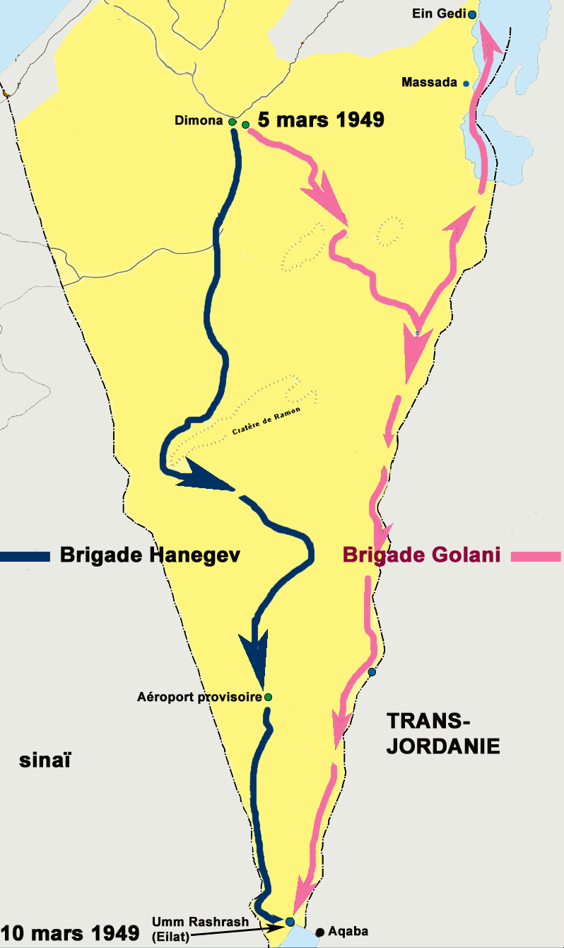 Operation Ouvda (or Uvda, or Ovda) - 5 march 1949-10 march 1949. Israel conquest of central and oriental Negev.